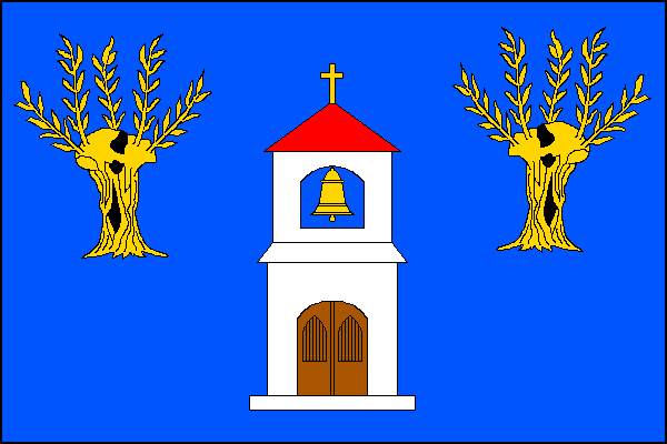 Municipal flag of Vrbová Lhota , District Nymburk, Czech republic